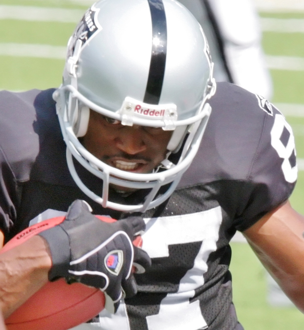 Alvis Whitted rushes with the ball.